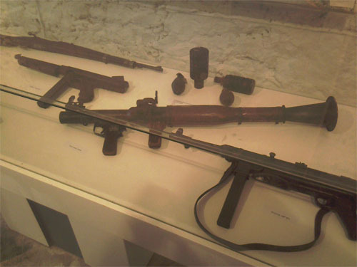 Museum of Croatian war in fort Imperial in Dubrovnik